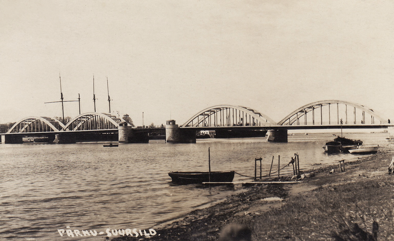 Great Bridge over the Pärnu river